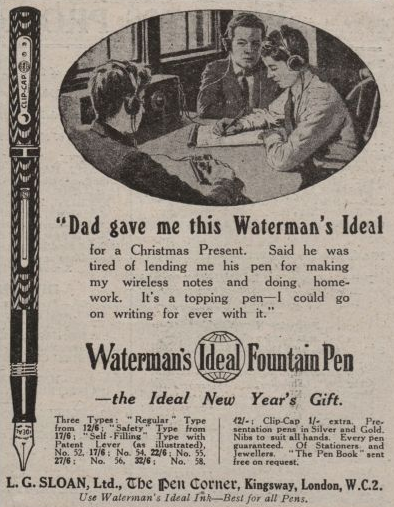 The Radio Times - 1923-12-28 - p10